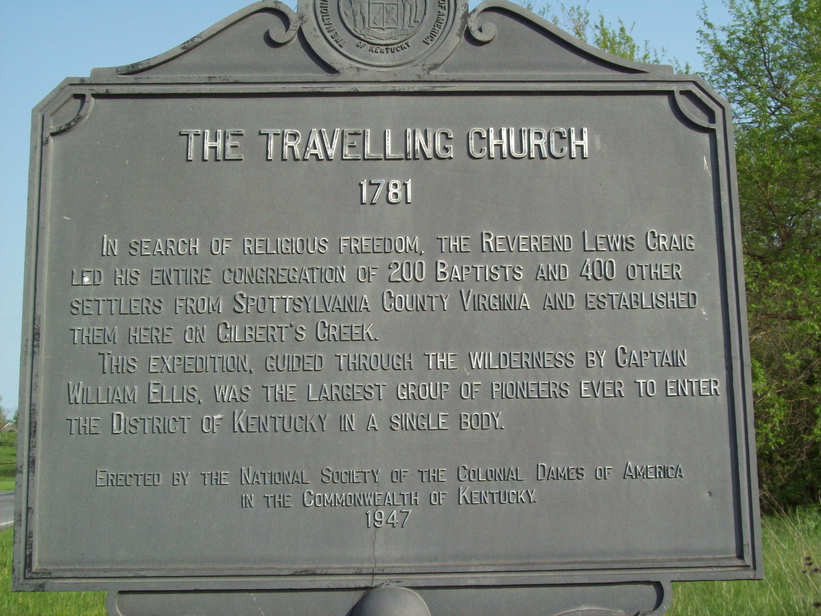 This memorial by the National Society of the Colonial Dames of America in the Commonwealth of Kentucky for "The Travelling Church, 1781" is also known as State Marker 25 and is located on KY 39/Lancaster Rd, SE of Lancaster, Garrard Co., KY, 40444; 37.577915, -84.558316. Text on marker: "In search of religious freedom, the Reverend Lewis Craig led his entire congregation of 200 Baptists and 400 other settlers from Spotsylvania County Virginia and established them here on Gilbert's Creek. This expedition, guided through the wilderness by Captain William Ellis, was the largest group of pioneers ever to enter the District of Kentucky in a single body. Erected by the National Society of the Colonial Dames of America in the Commonwealth of Kentucky. 1947."